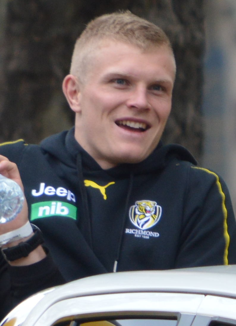 Ryan Garthwaite at the 2019 AFL Grand Final Parade